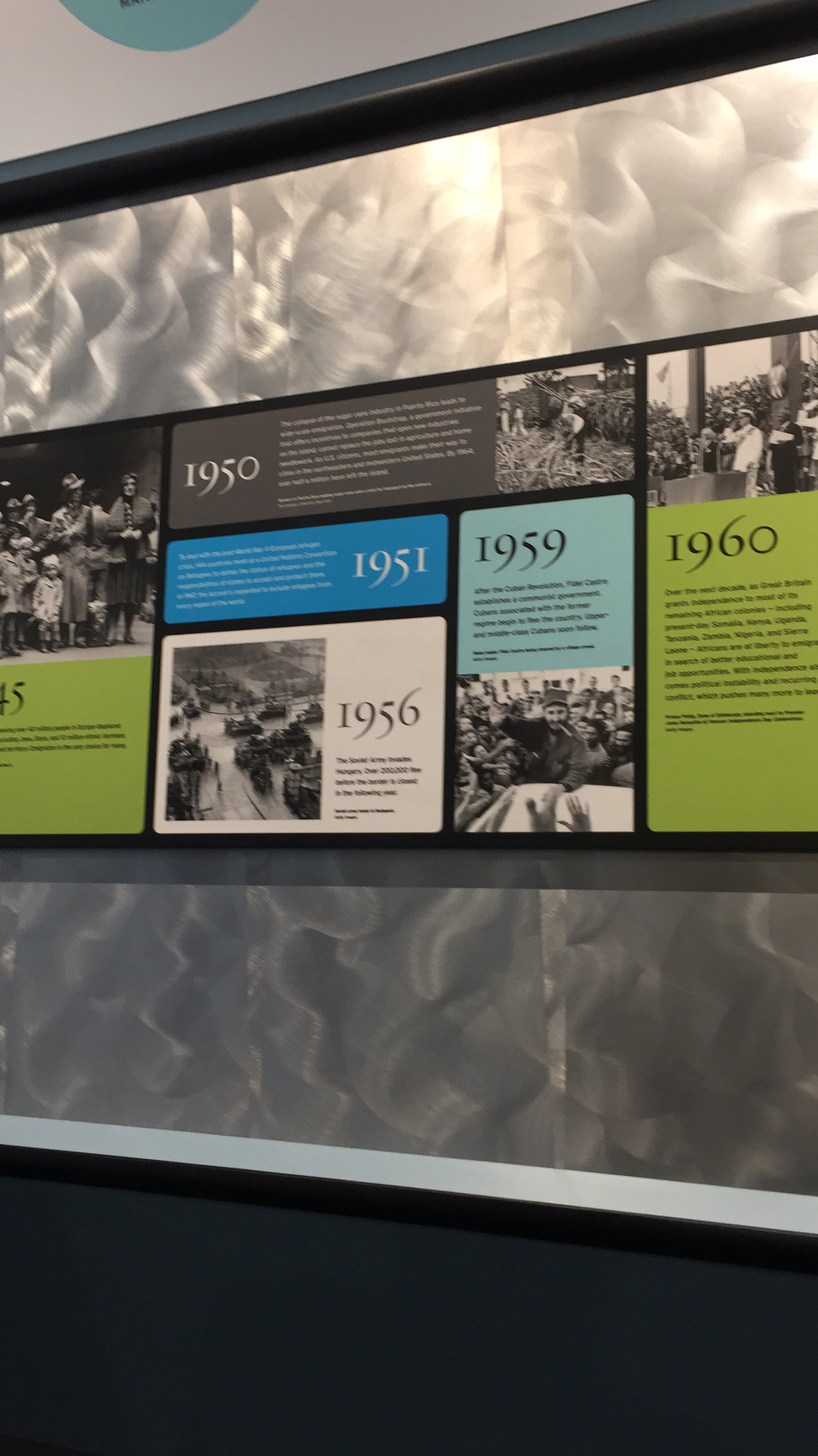 Ellis Island Museum of Immigration